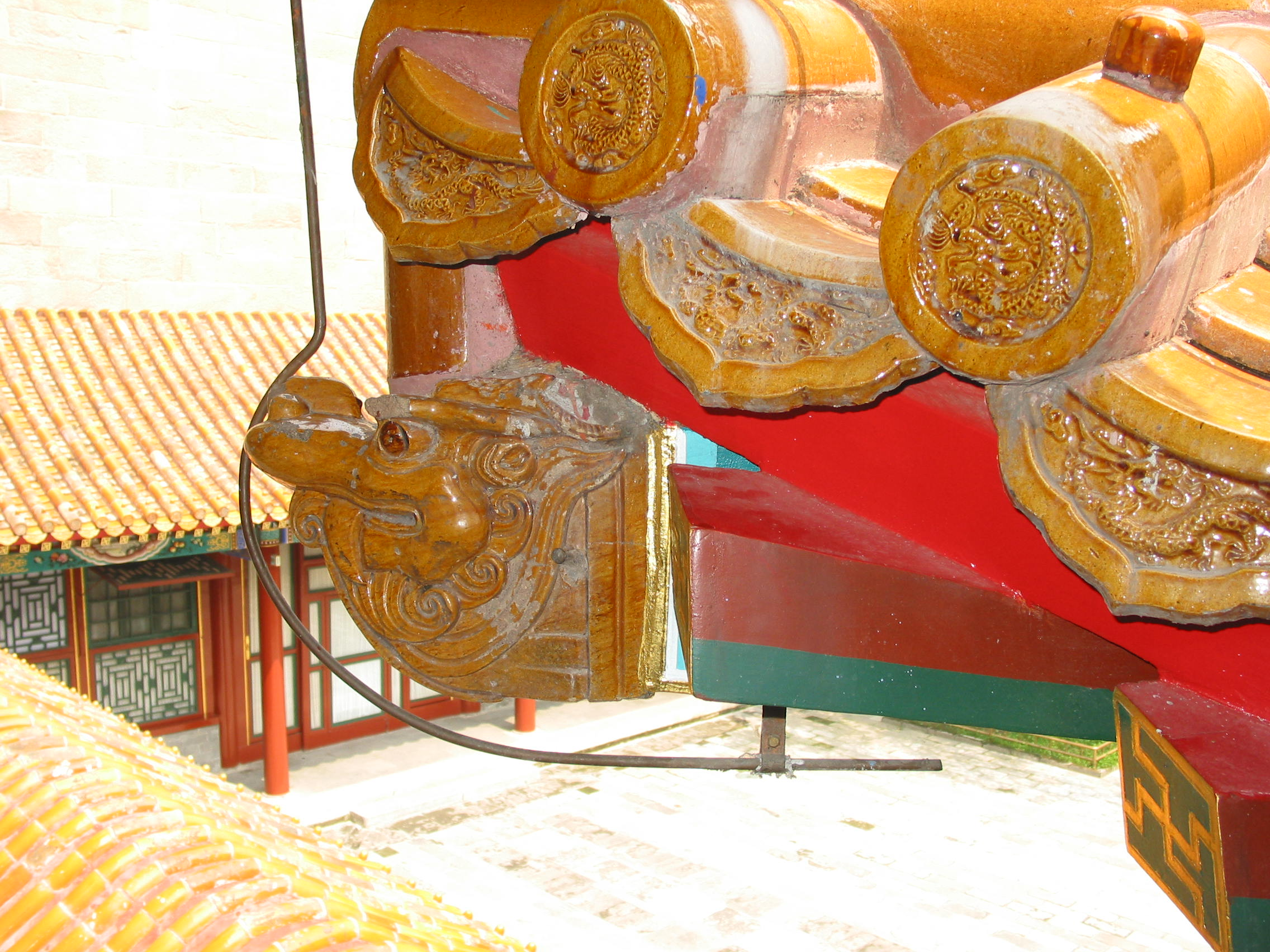 Taoshou (套兽) on the eaves of the Hall of Dispelling Clouds in Summer Palace, Beijing, China